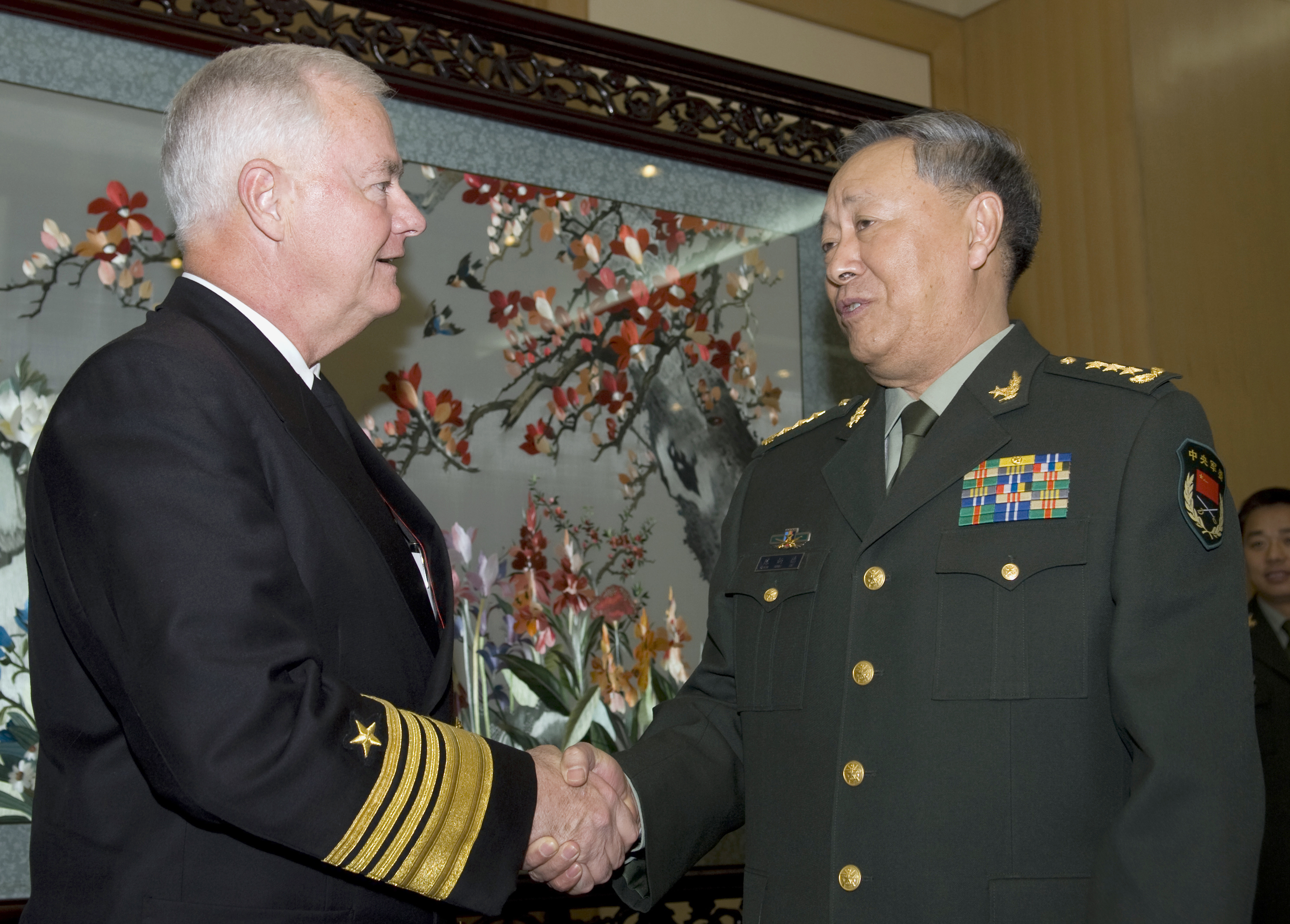 Adm. Timothy J. Keating, commander of U.S. Pacific Command, is greeted by Gen. Chen Bingde, director of the Peoples Liberation Army General Staff, before a meeting with military and government officials.